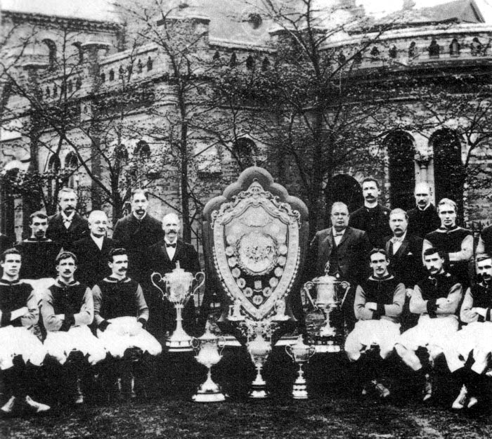 The Aston Villa team of 1899 that won First Division and Sheriff of London Charity Shield (shared with Queen's Park). The hugely successful team Ramsay assembled at the end of the 19th Century. Ramsay can be seen standing on the far left of the back row. The presence of the large shield (the Sheriff of London Shield) in the centre of the image attests to this being an 1899 photograph.